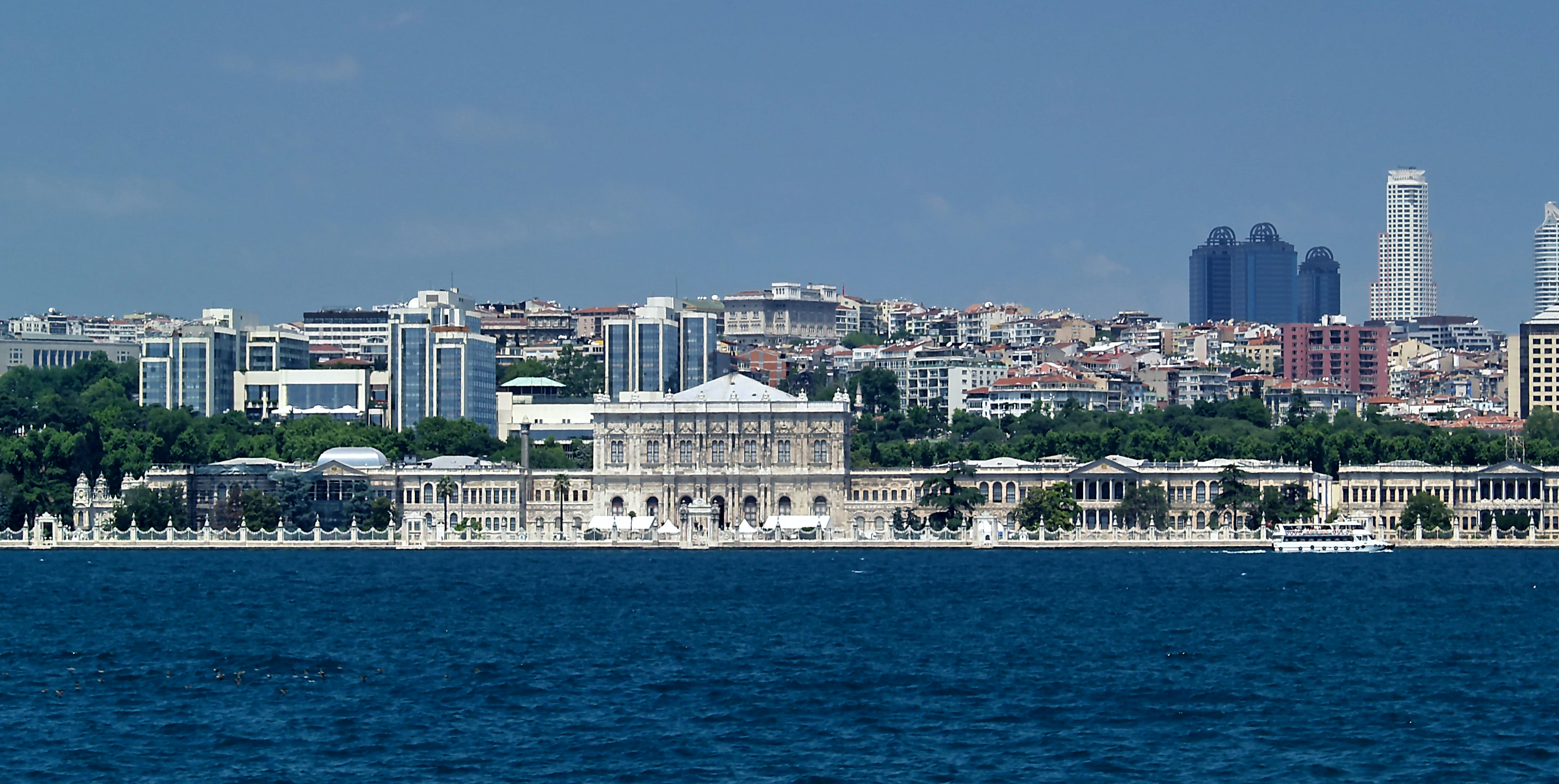 Dolmabahce Palace from the Bosphorus